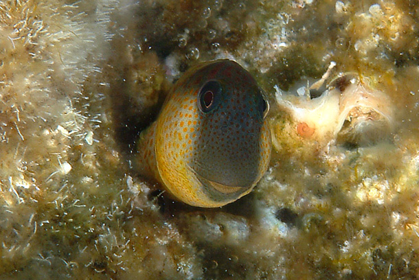 Male (spawning) Lipophrys canevae photographed near Tuscany coasts. Photo by Stefano Guerrieri